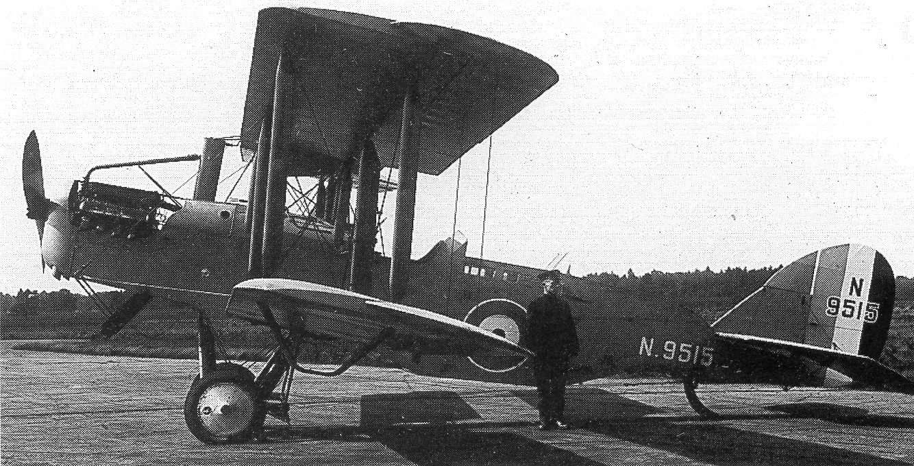 Production Westland Walrus N9515 in August 1921 during handling trials with high lift wing at Martlesham Down.